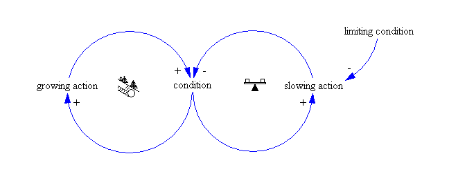 Causal loop diagram - system archetype "Limits to growth"